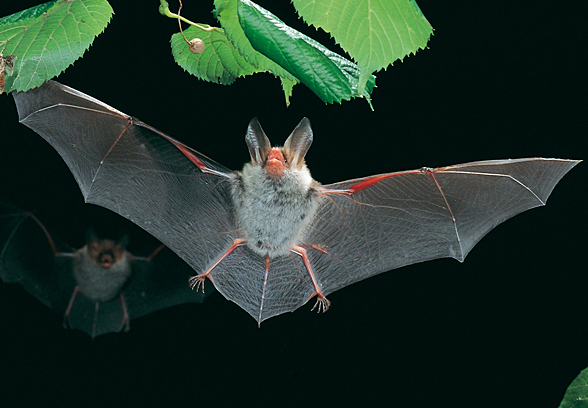 An echolocating bat (Myotis bechsteinii) avoiding collision with a plant while searching for a moth.